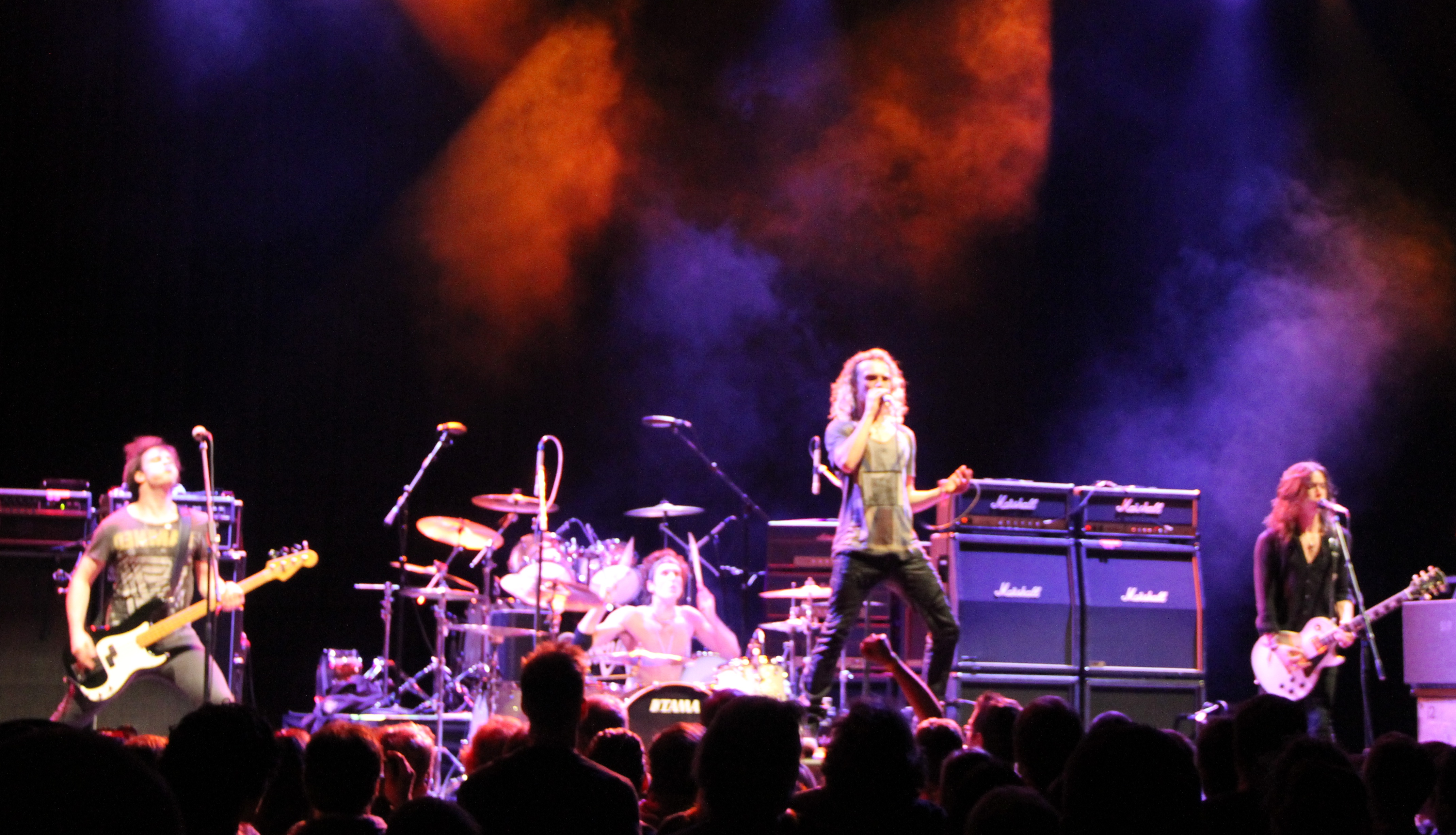 Heaven's Basement performing live at Club Nokia in Los Angeles, California.